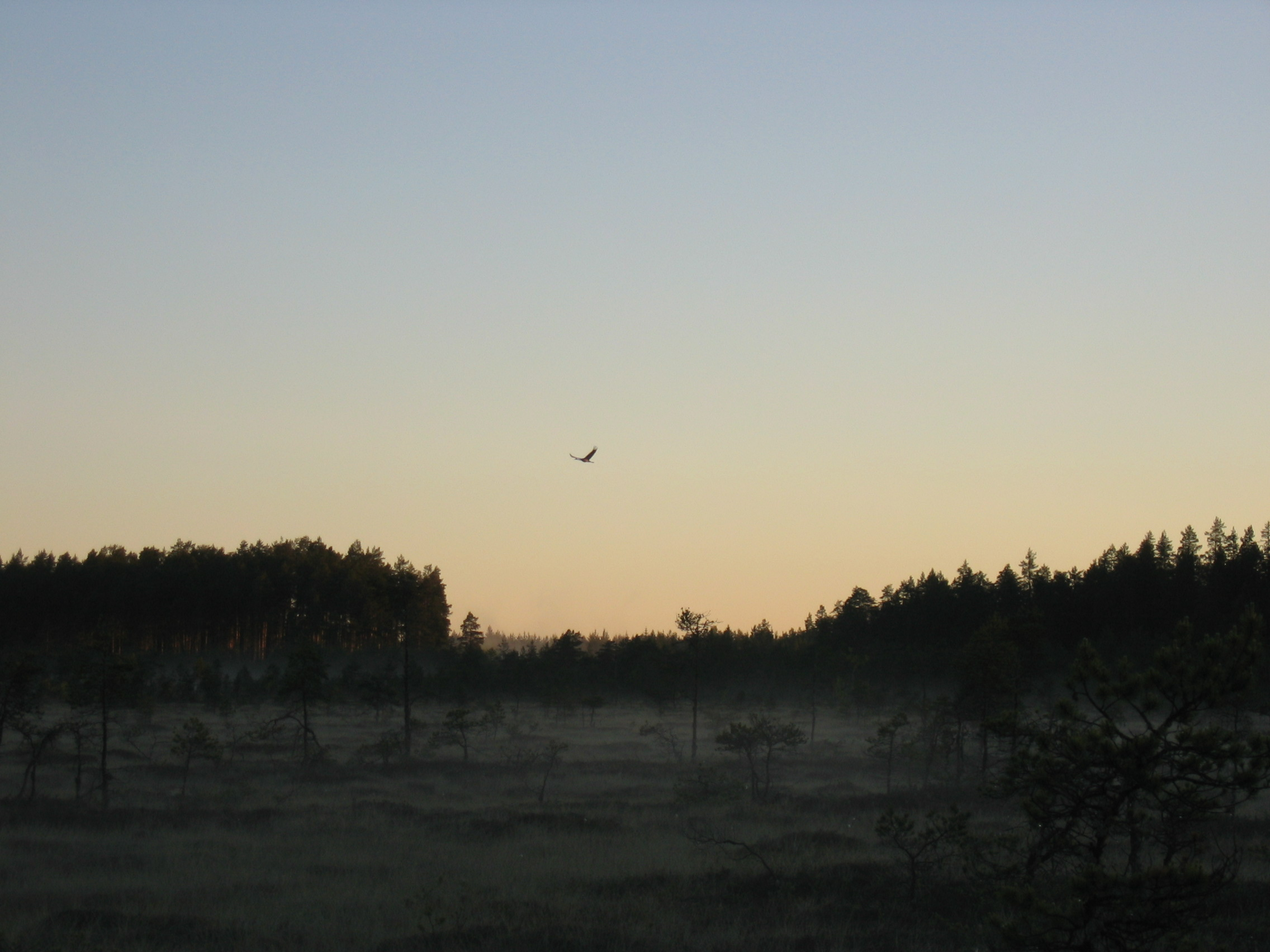 A common crane (Grus grus) flying over Lakjärvenrahka on a misty sunrise in Kurjenrahka National Park, Finland. Image taken north of takaniitunvuori, Huhtasaari forest on the left, Pukkipalo on the right.